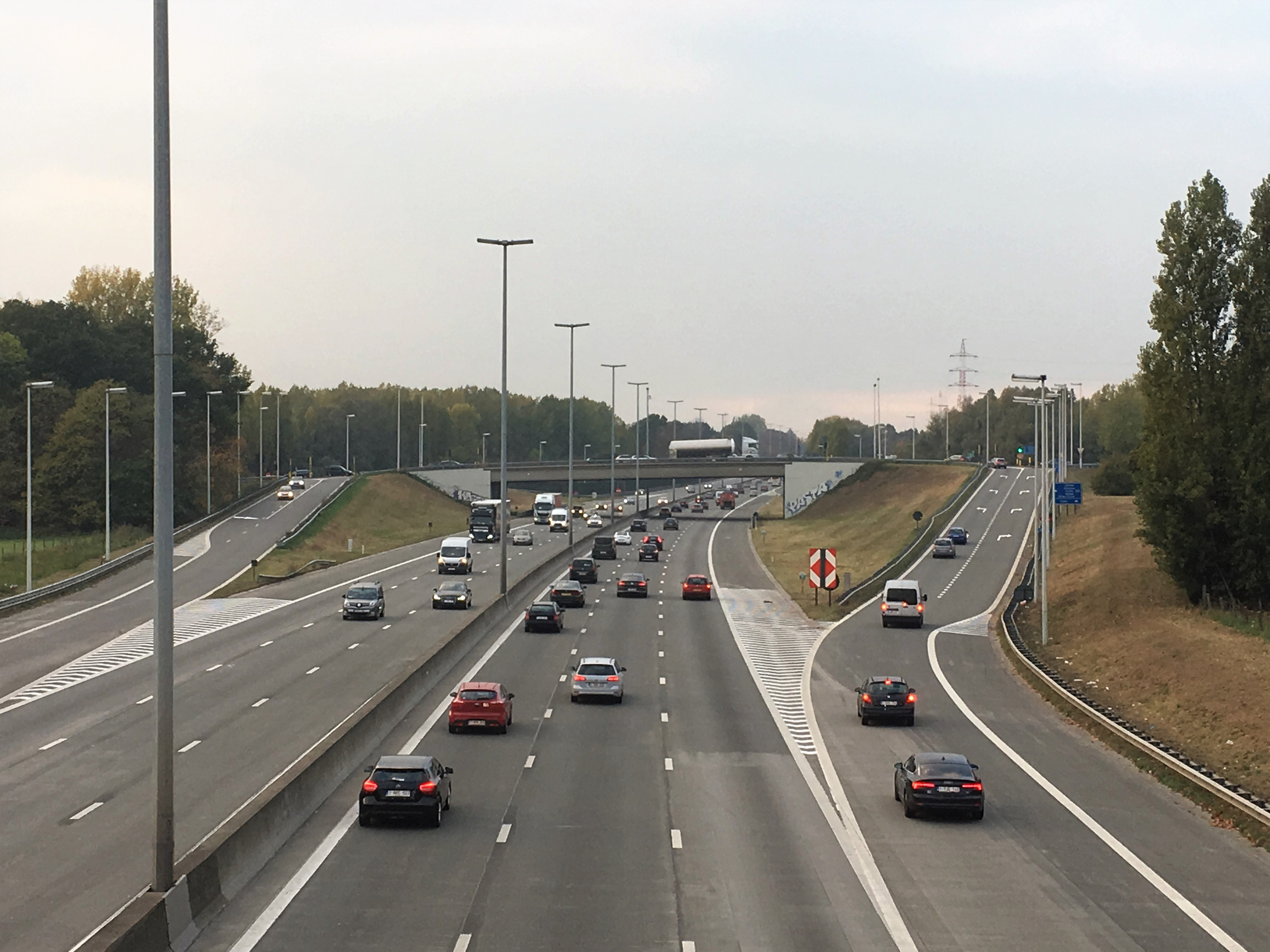 Entrance and exit complex on the E40/A10 motorway in Affligem